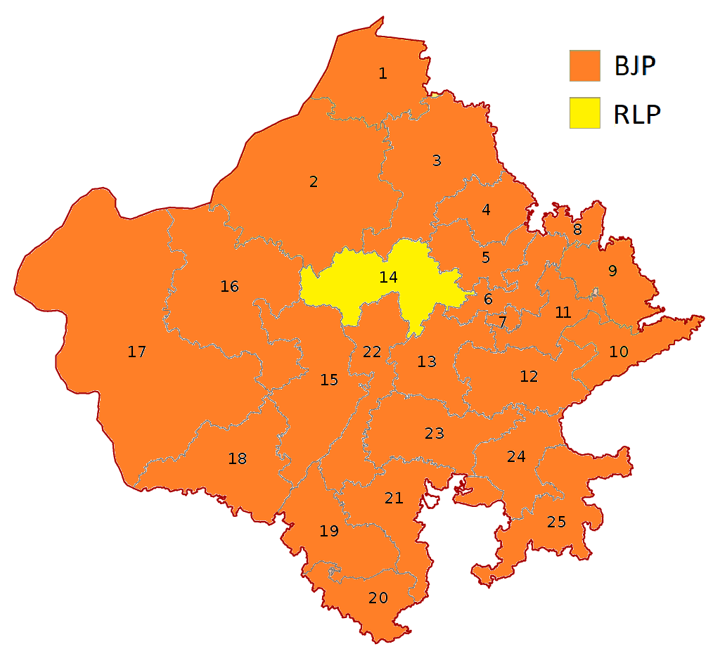 Seat Sharing of NDA in Rajasthan in 2019 General Election